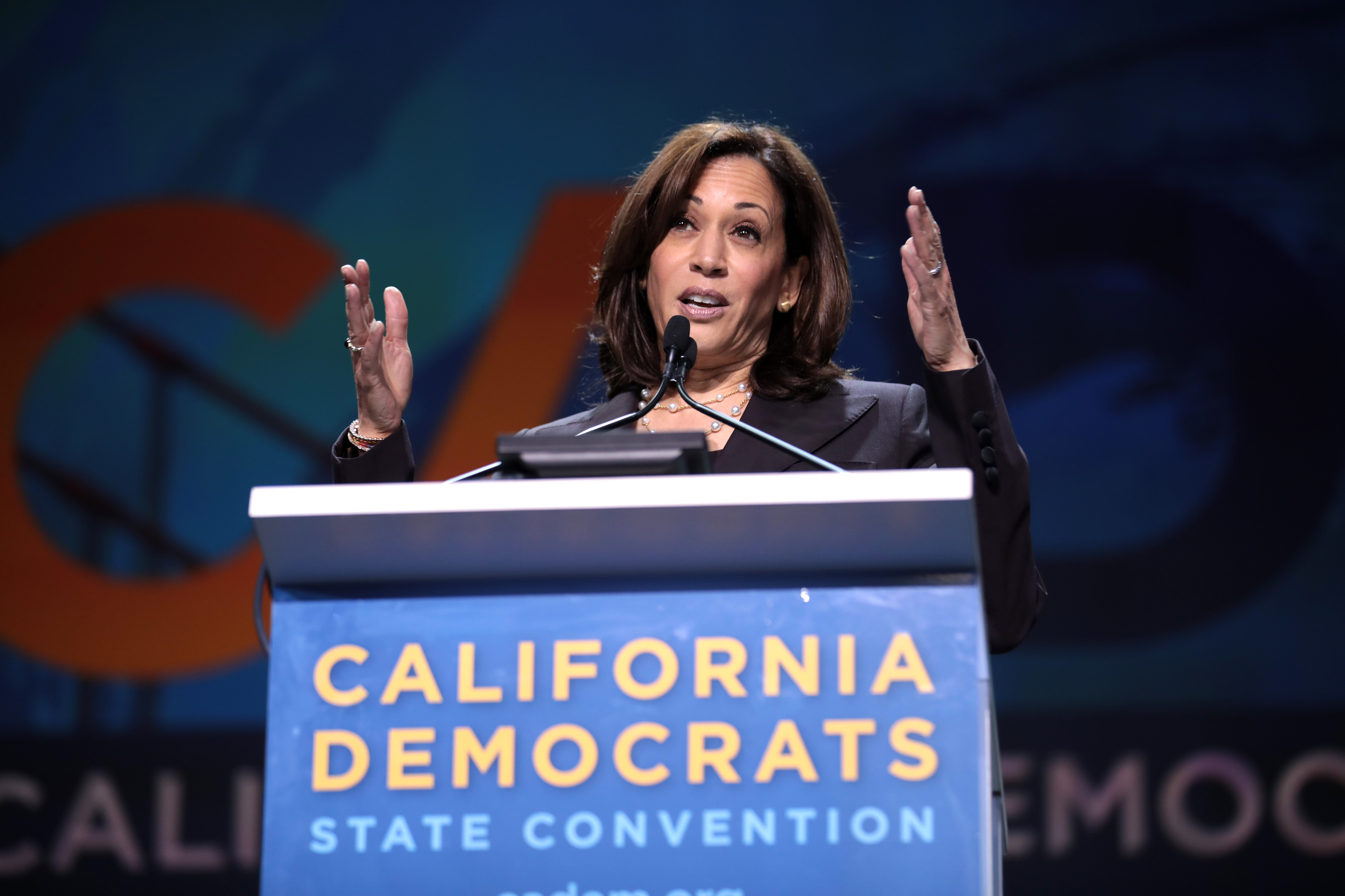 U.S. Senator Kamala Harris speaking with attendees at the 2019 California Democratic Party State Convention at the George R. Moscone Convention Center in San Francisco, California.